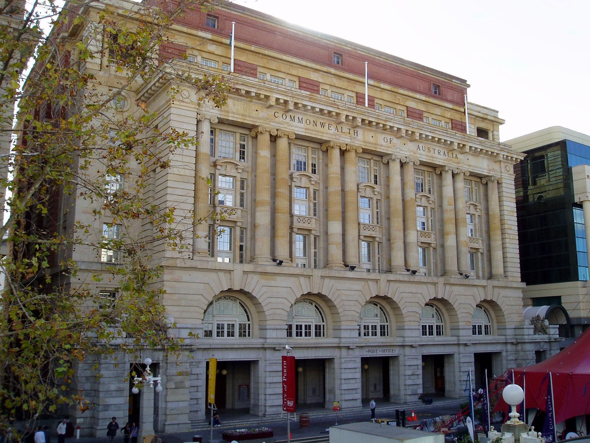 General Post Office building, Forrest Place, Perth.